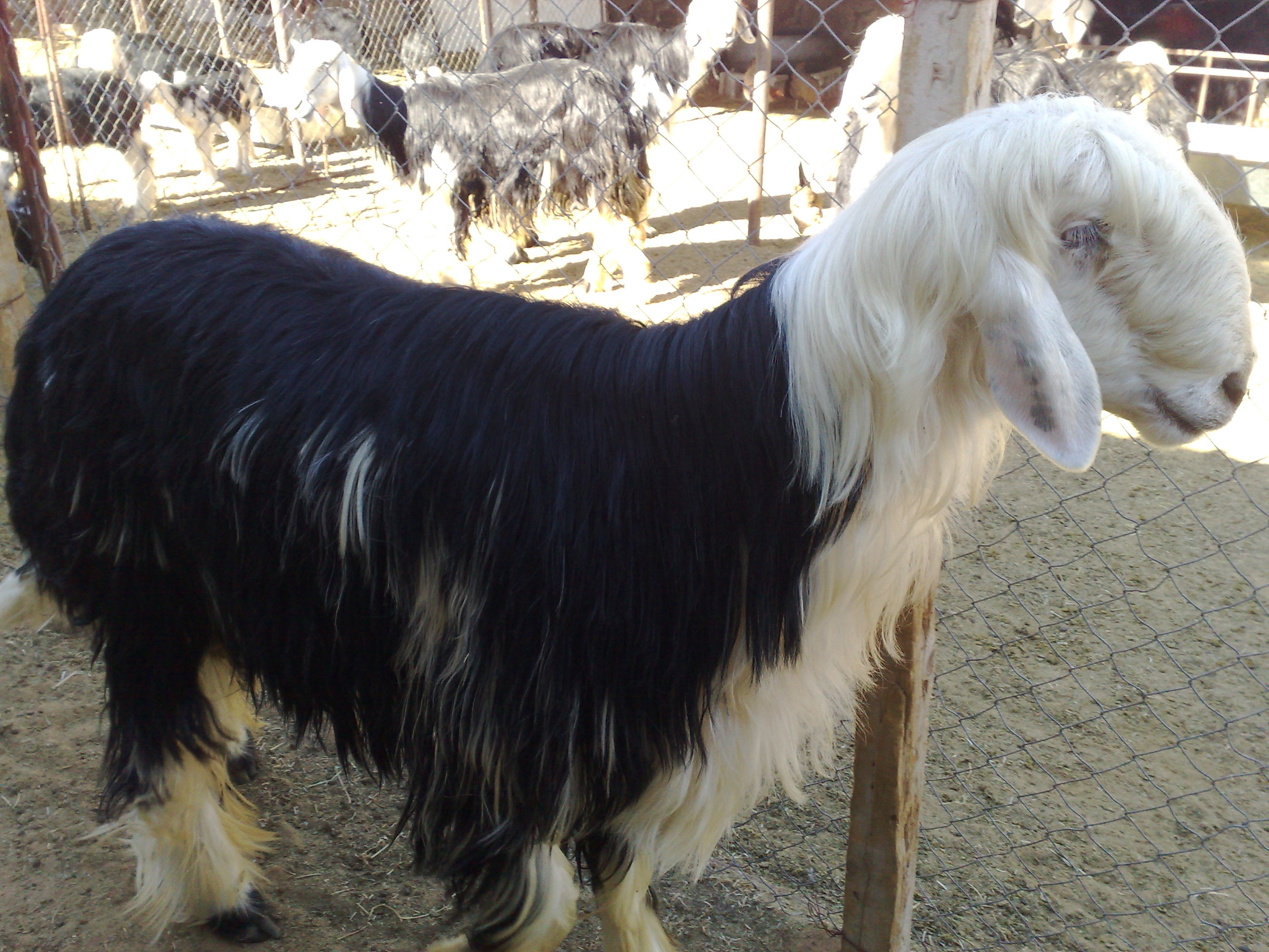 najdi sheep in Unaizah